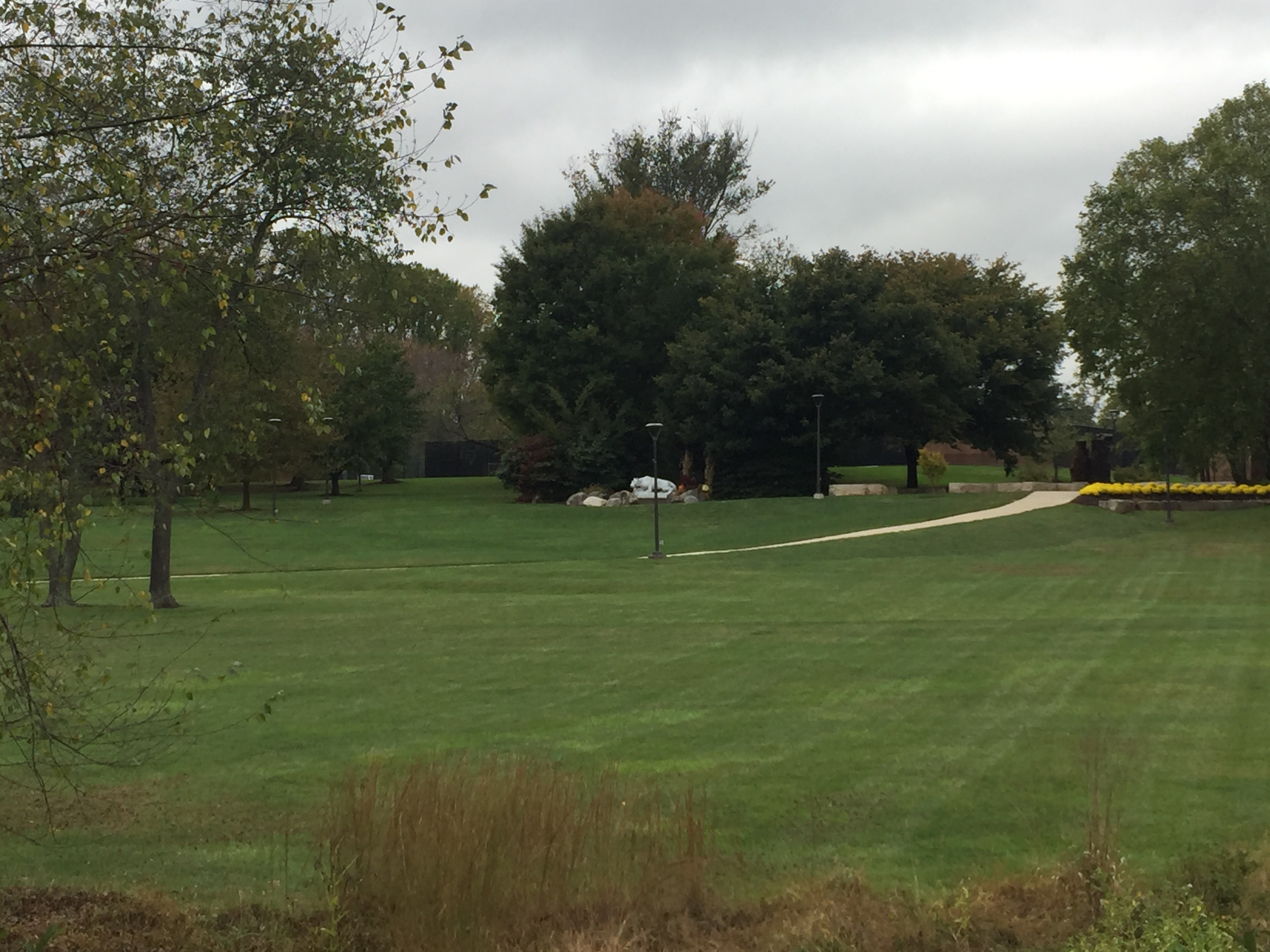 Beandywin mitts you lion shrine